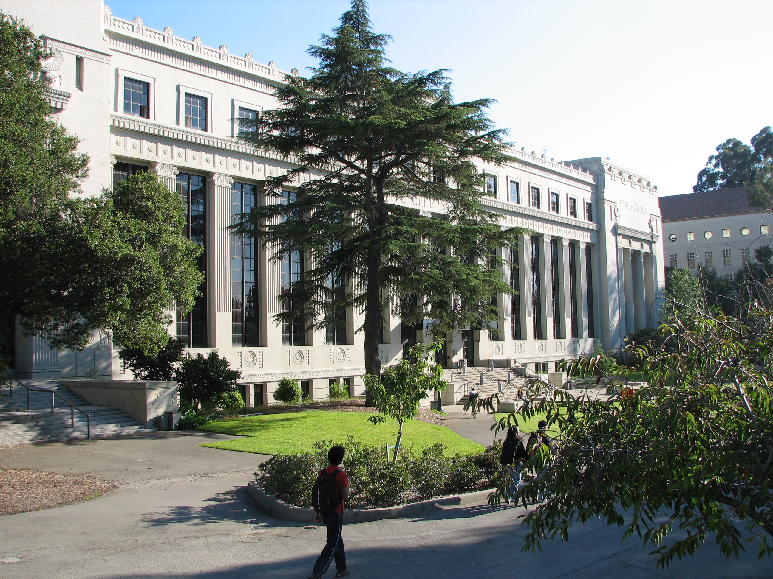 North facade of the Valley Life Sciences Building (VLSB) at the University of California, Berkeley